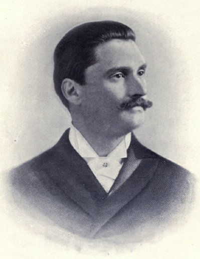 Portrait of Achille Bergevin